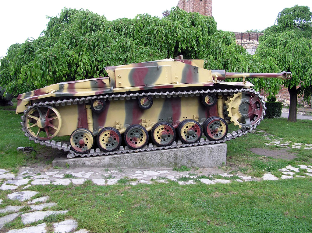 Sturmgeschütz III Ausf. F/8 (early), Belgrade Military Museum, Serbia. Author of the picture is user Dungodung.